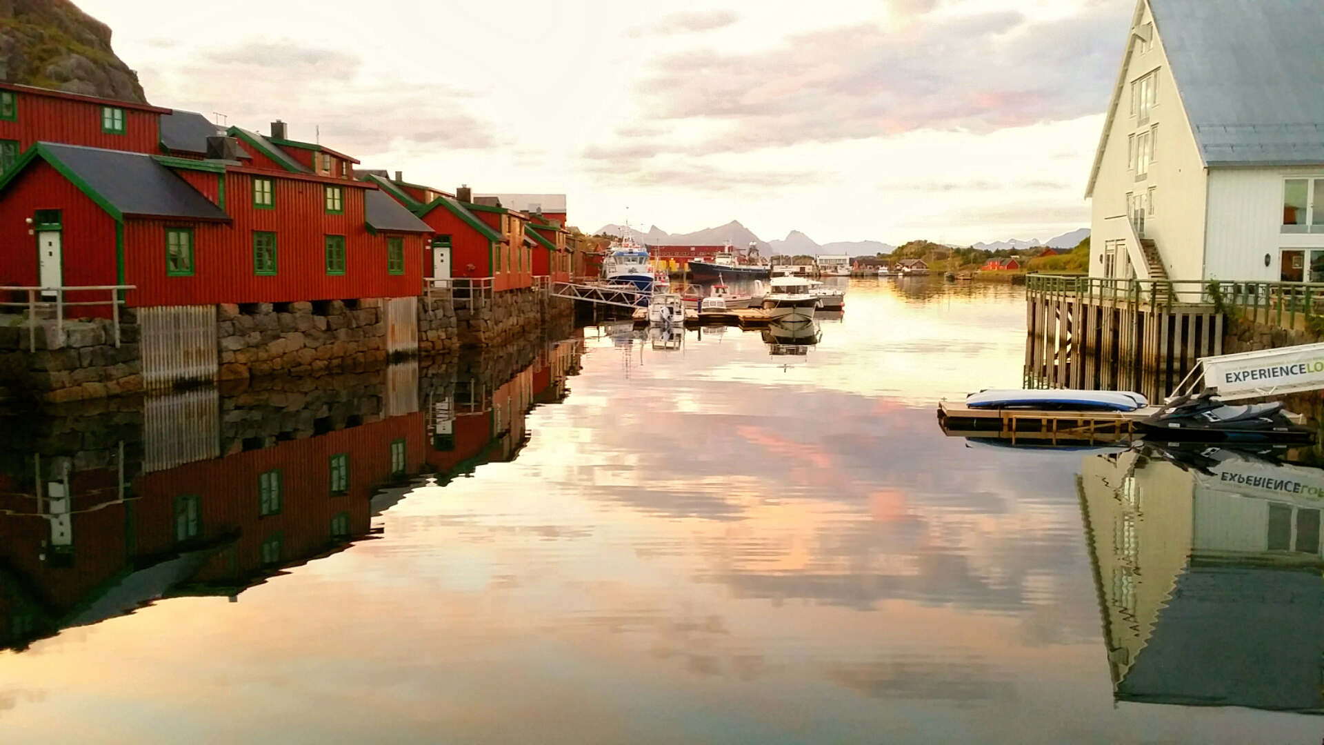 Old fishermans cottages in Stamsund, Lofoten.